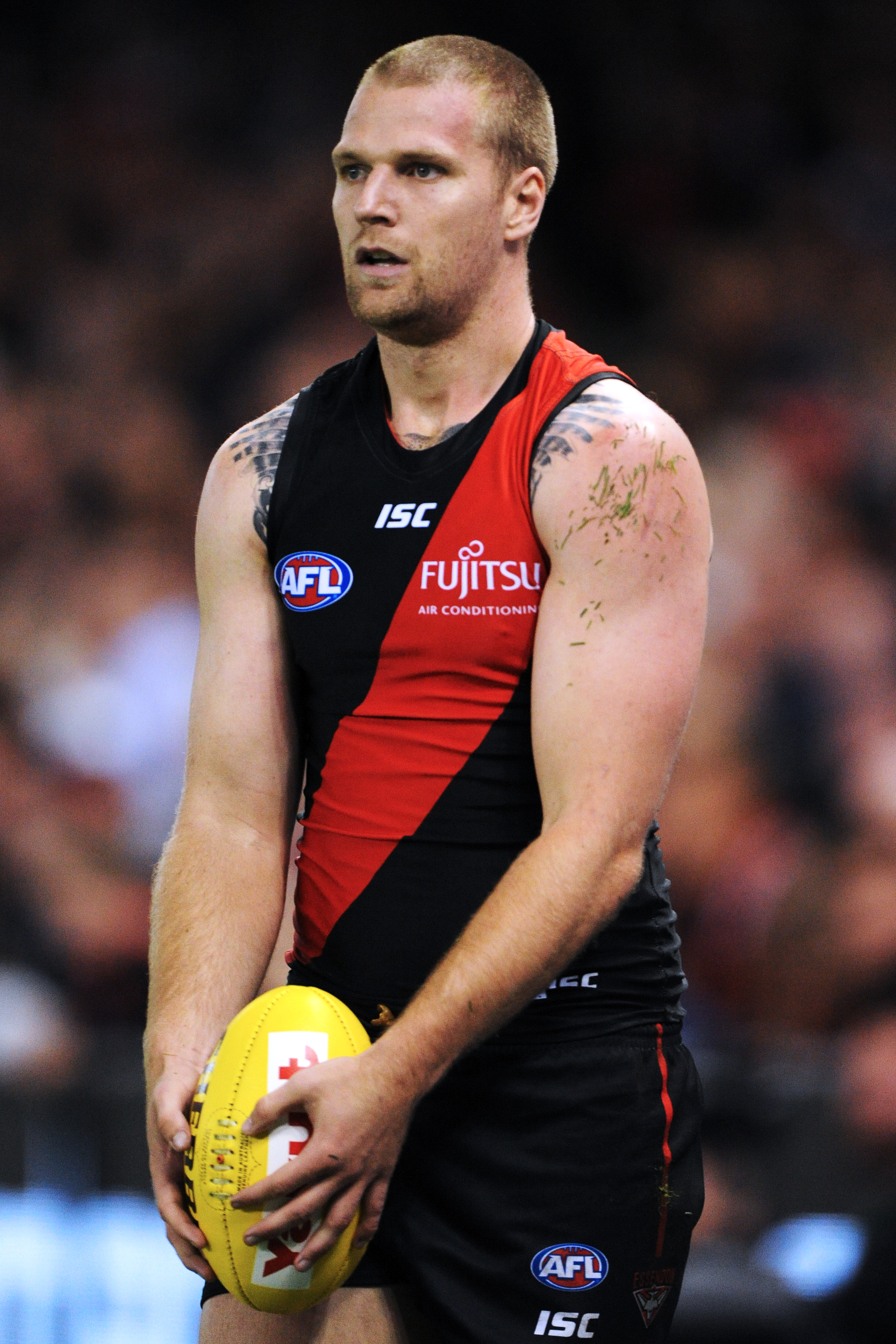 Jake Stringer of Essendon during the 2018 AFL round 6 match between Essendon and Melbourne at Etihad Stadium on Sunday, 29 April 2018 in Melbourne, Victoria.